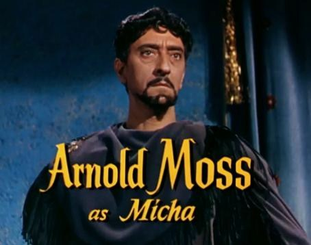 Arnold Moss in Salome - trailer (cropped screenshot)